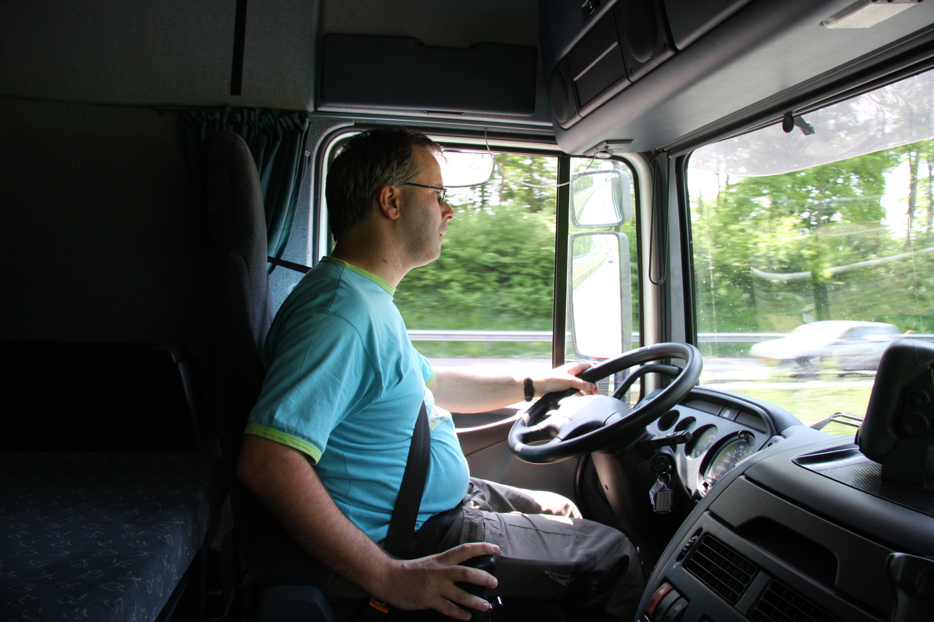 Veronica538 at work as truckdriver